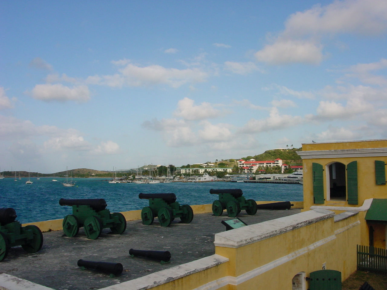 Cannons on the upper deck, Fort Christiansvaern, Christiansted, St. Croix, USVI